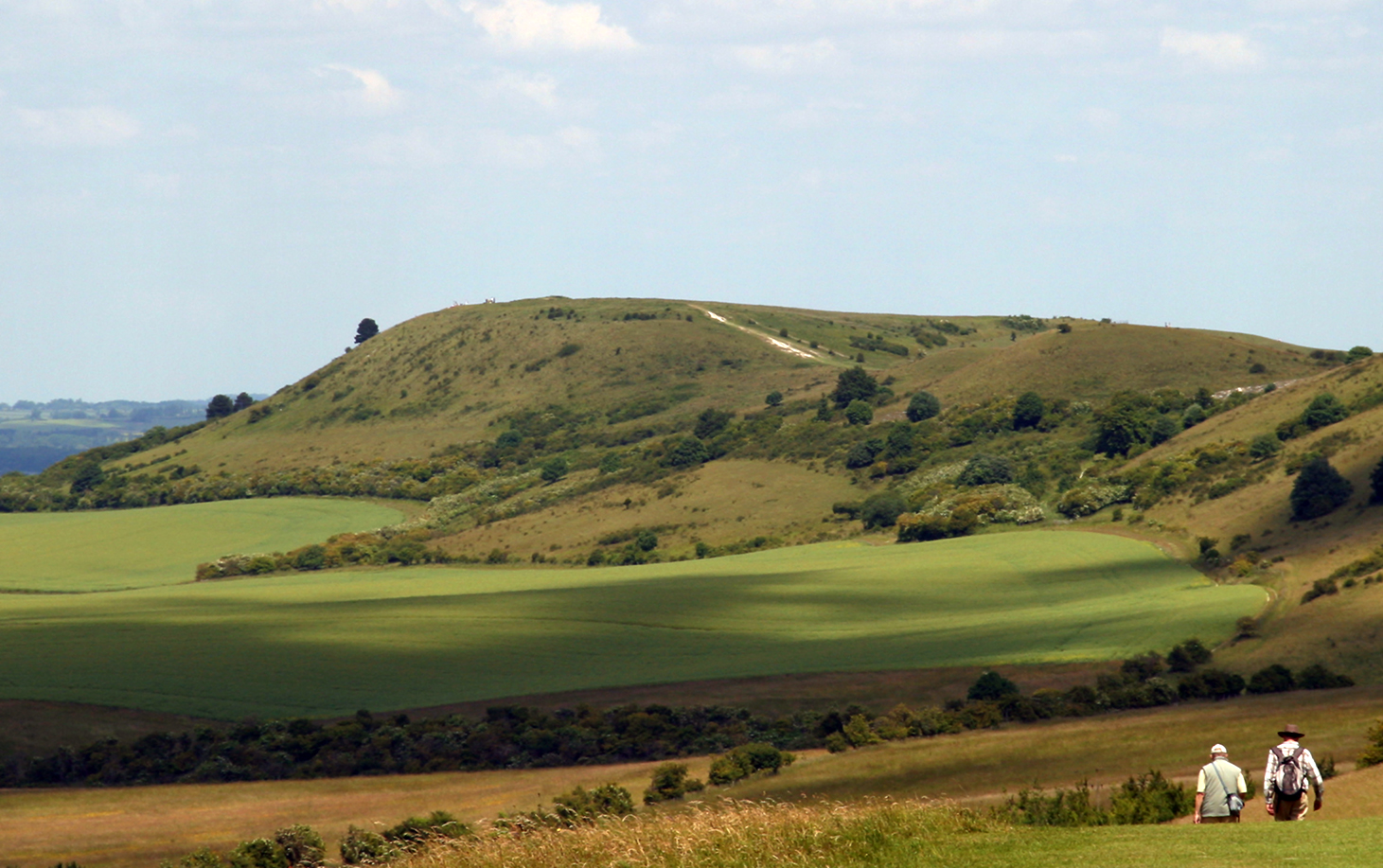 Ivinghoe Beacon seen looking north from The Ridgeway. Photographed for Wikipedia by Pointillist and contributed under the cc-by-sa 3.0 license.